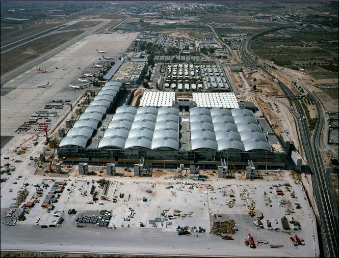 Alicante Airport: New Area Terminal